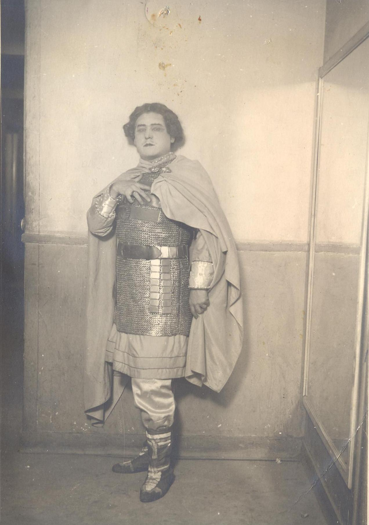 Petar Raychev in Prince Igor Opera, Paris, 1933.